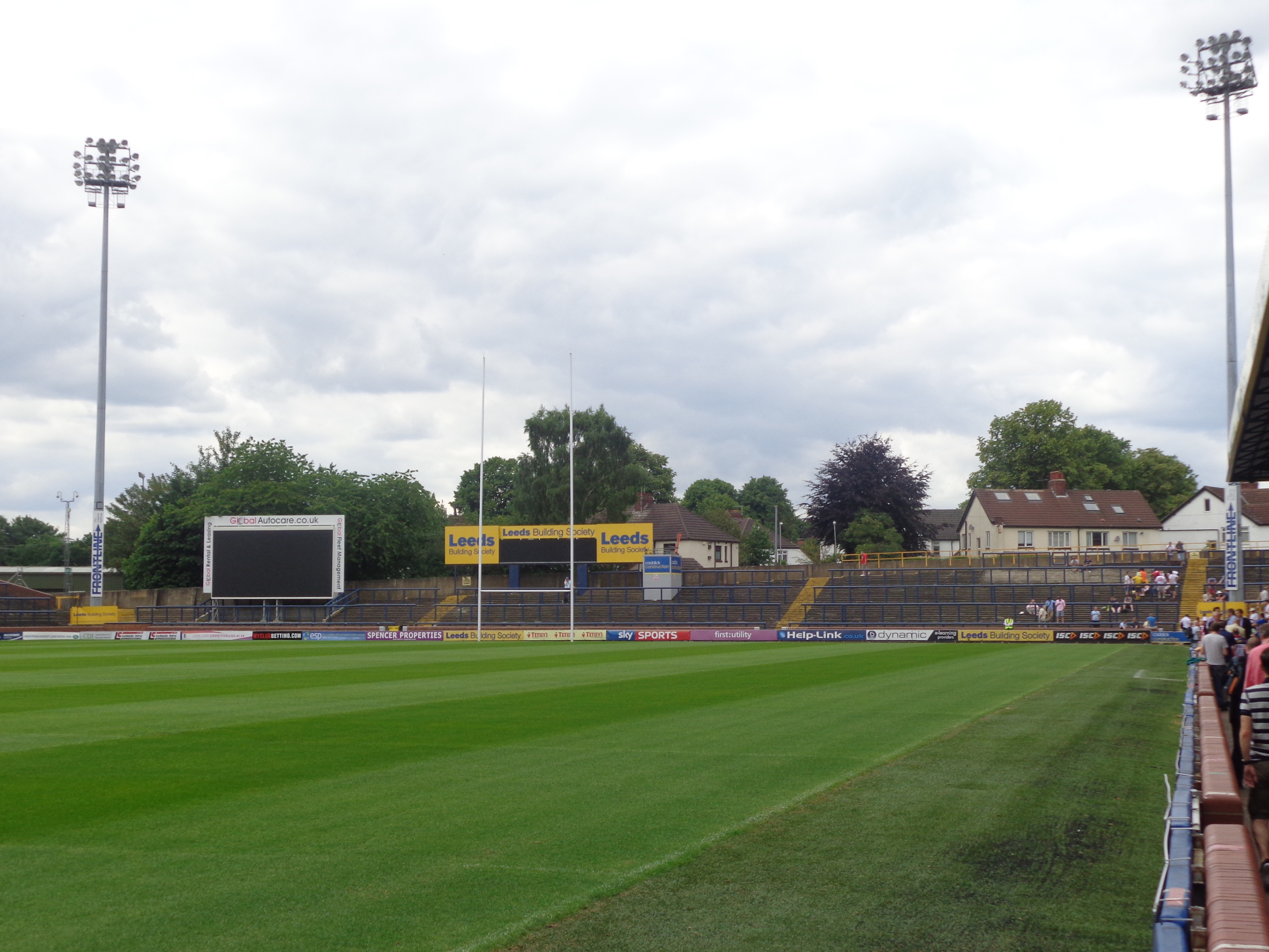 Western terraces, Headingley Stadium during the second day of the England-Sri Lanka test. Taken on the afternoon of Saturday the 21st of June 2014.